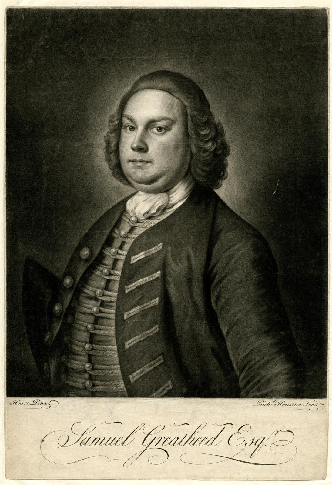 Portrait, almost half-length standing directed to left, looking towards the viewer, left arm at his side, tricorn under right arm, wearing a plain suit with tricon under right arm, and short brown wig; after Hoare. Mezzotint